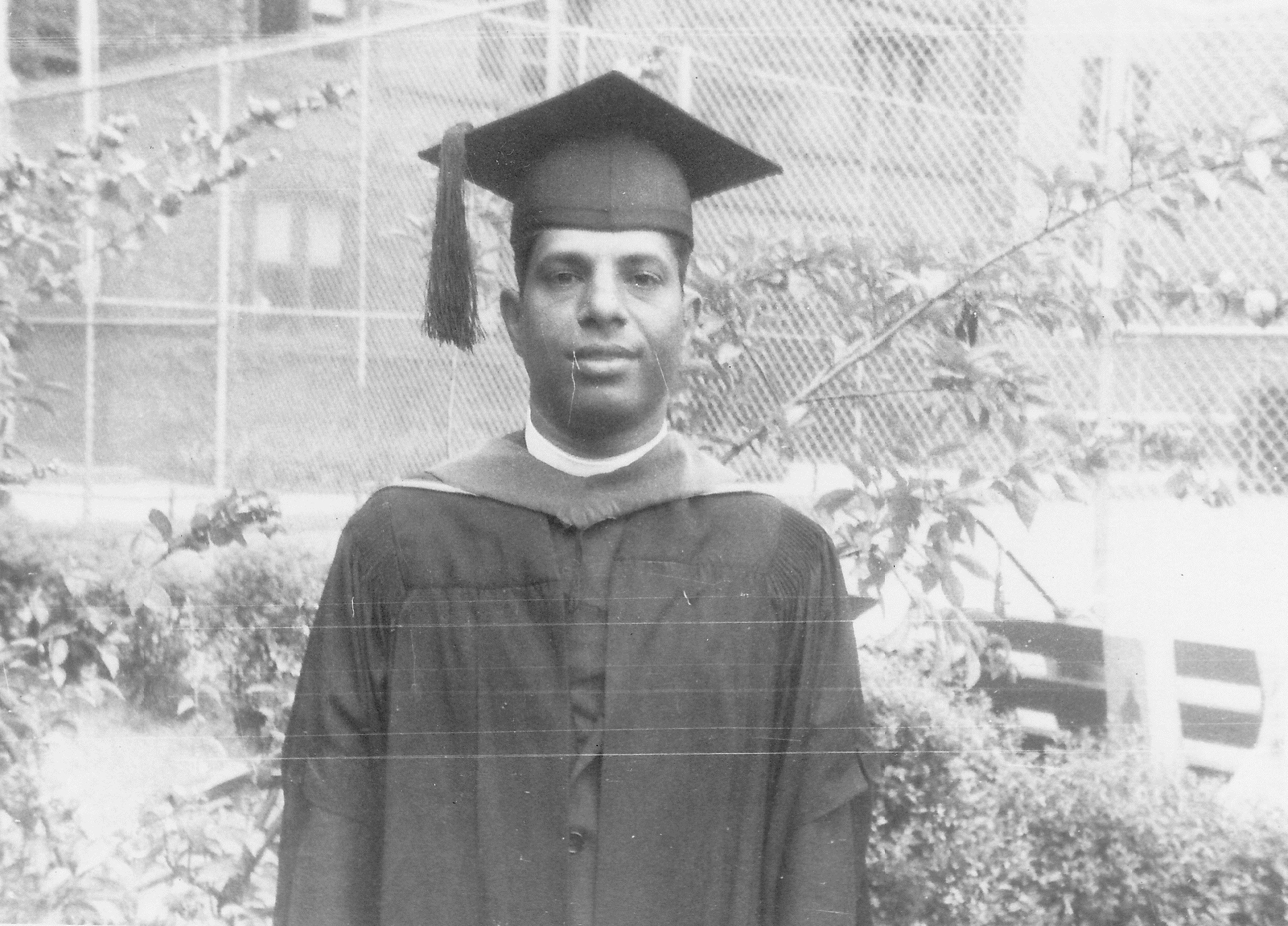 Awarded Yale University PhD in 1957. First Keralite received the highest Doctoral Degree from Yale.